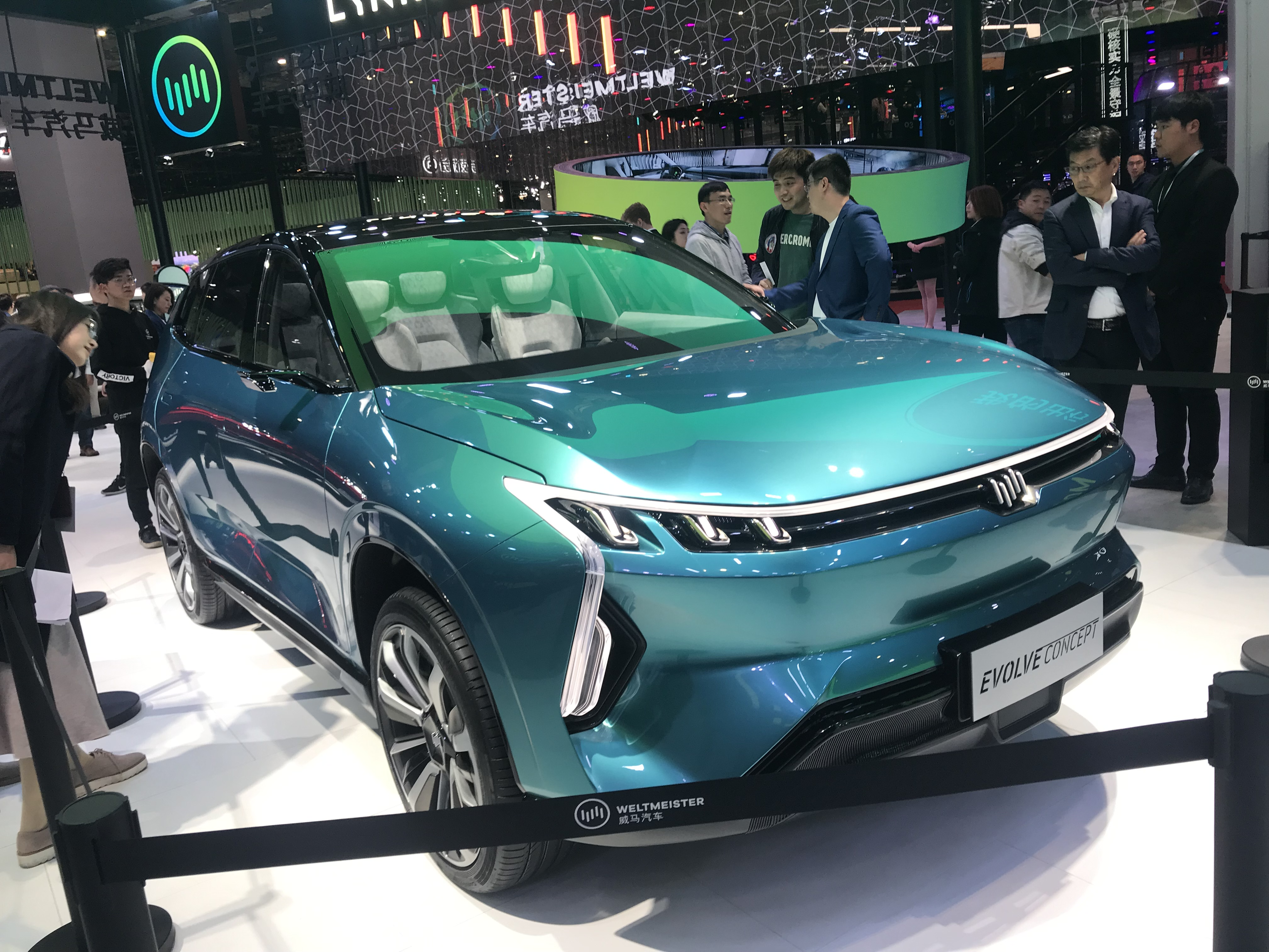 Weltmeister Evolve Concept front